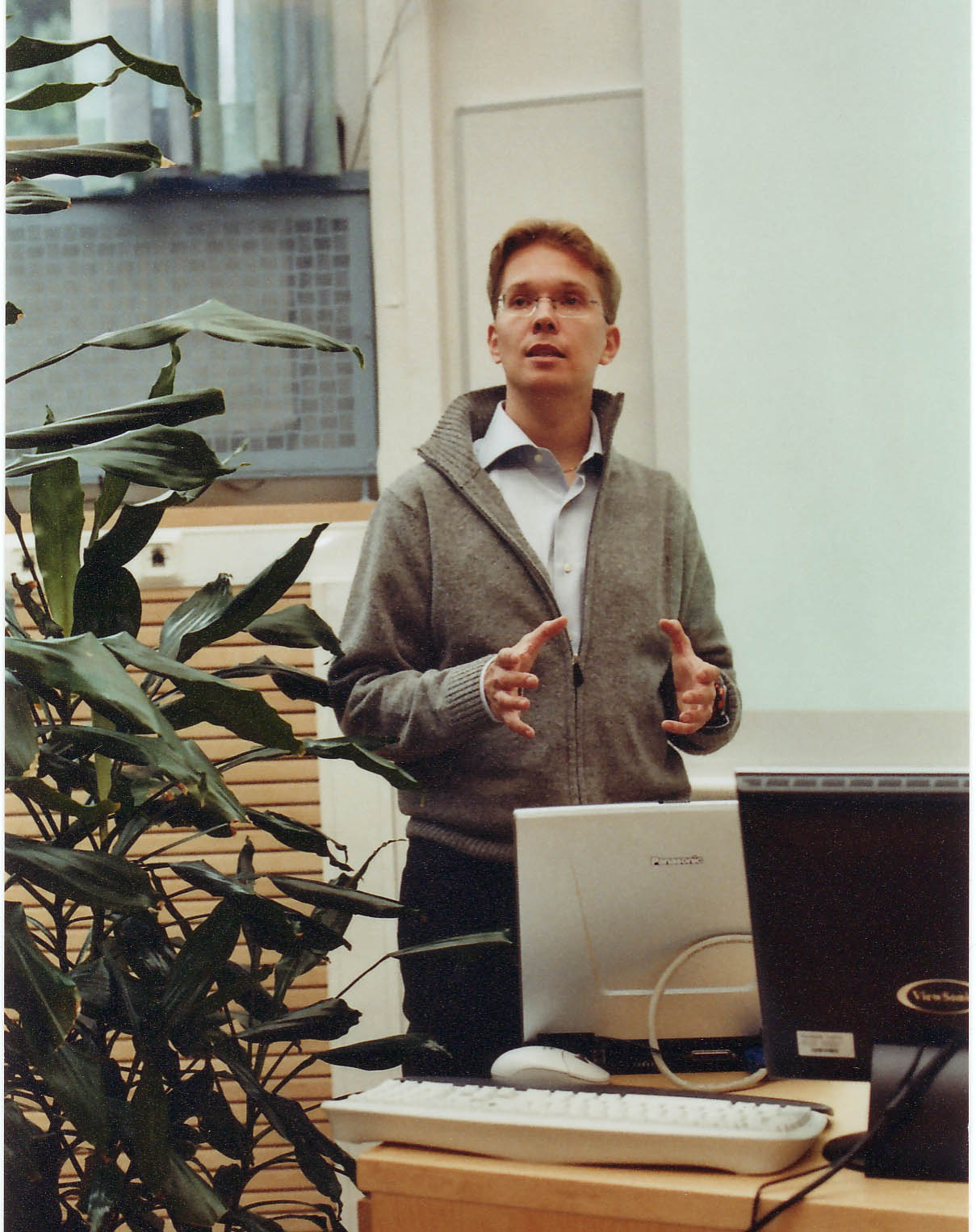 Ossi Oikarinen in Varkaus, Finland